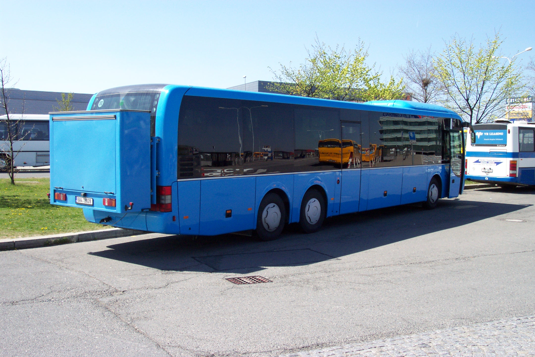 MAN Lion's Regio L bus (6A4 2028) at Zličín, Prague, Czech Republic. Built 2006, CS Trans, s.r.o. from Rakovník operator.